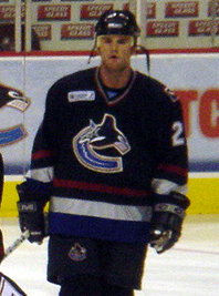 Defenceman Steve McCarthy with the Vancouver Canucks in 2005.